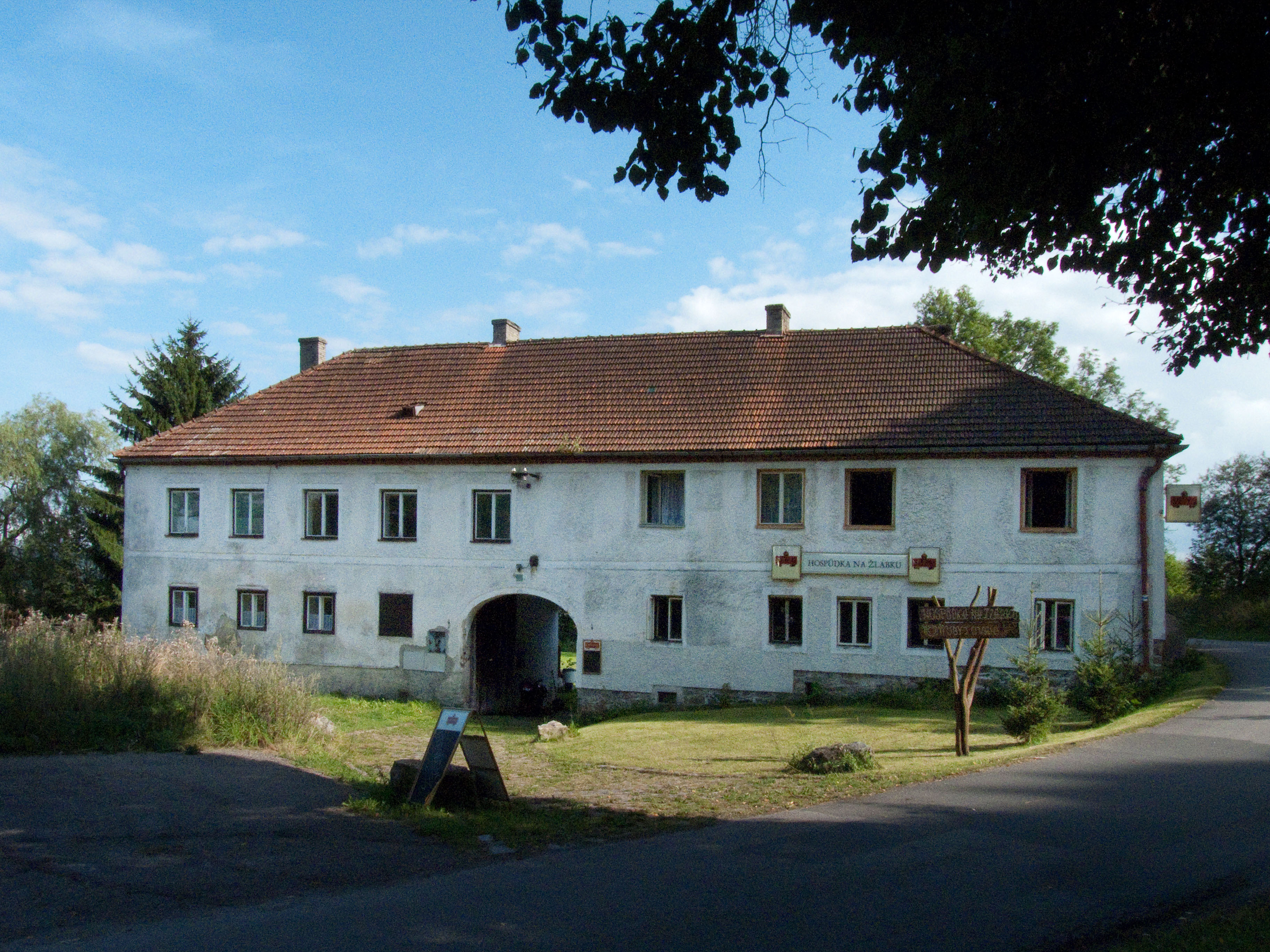 House No 3 in Žlábek, Český Krumlov district, Czech Republic